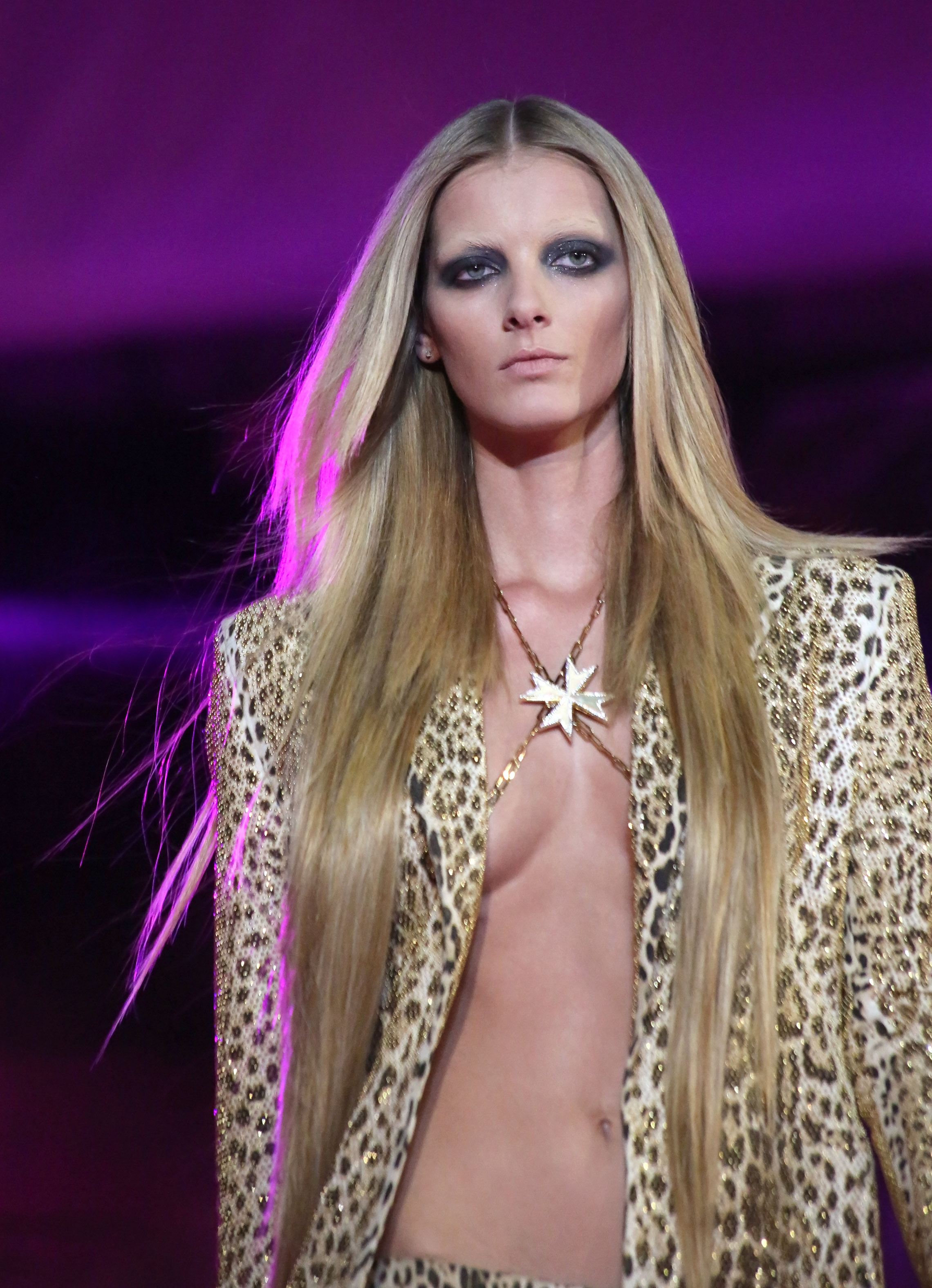 Anja Rubik, fashion show by Roberto Cavalli, opening of Life Ball 2013 at the city hall of Vienna, Vienna, Austria.